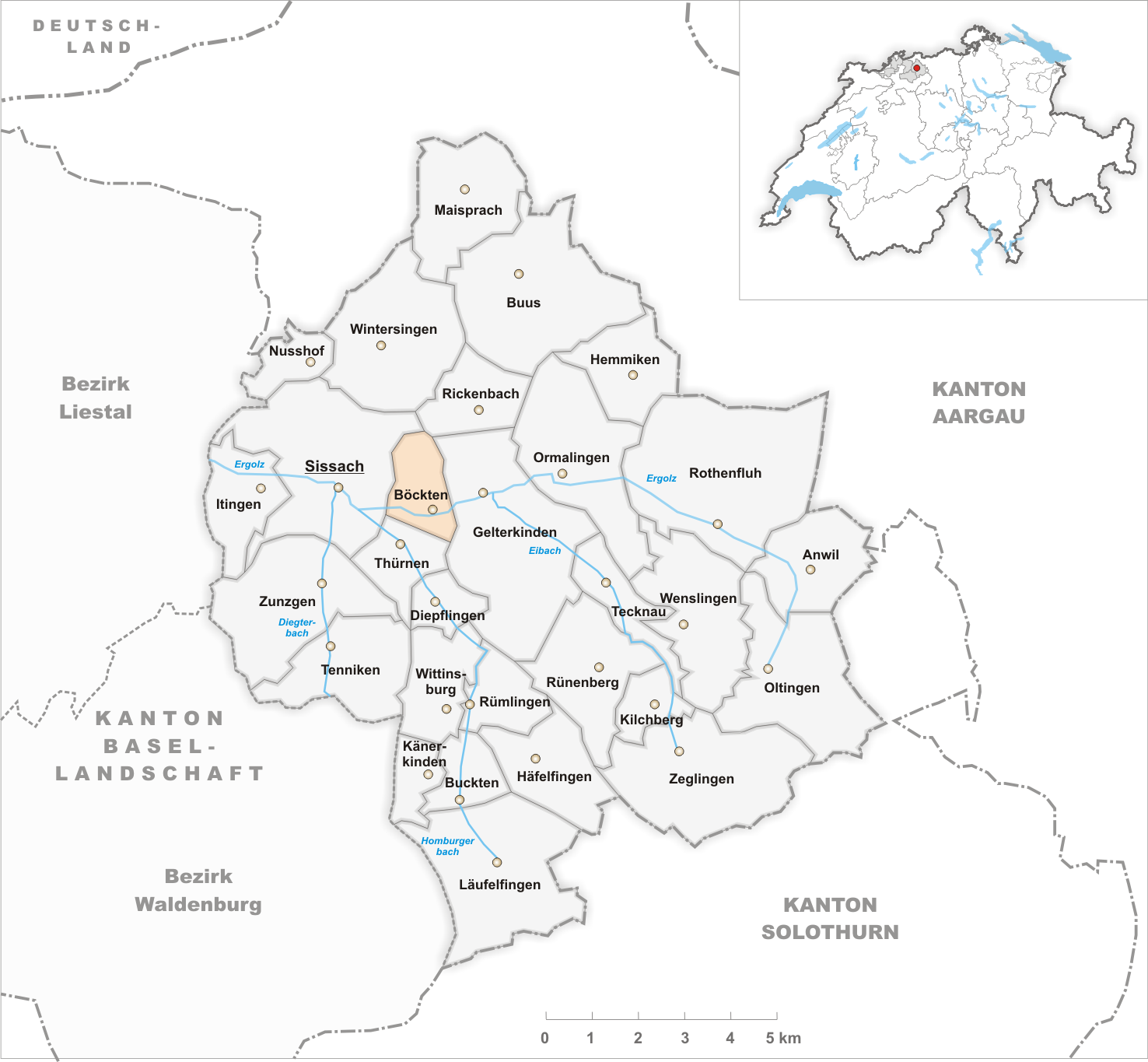 Municipality Böckten